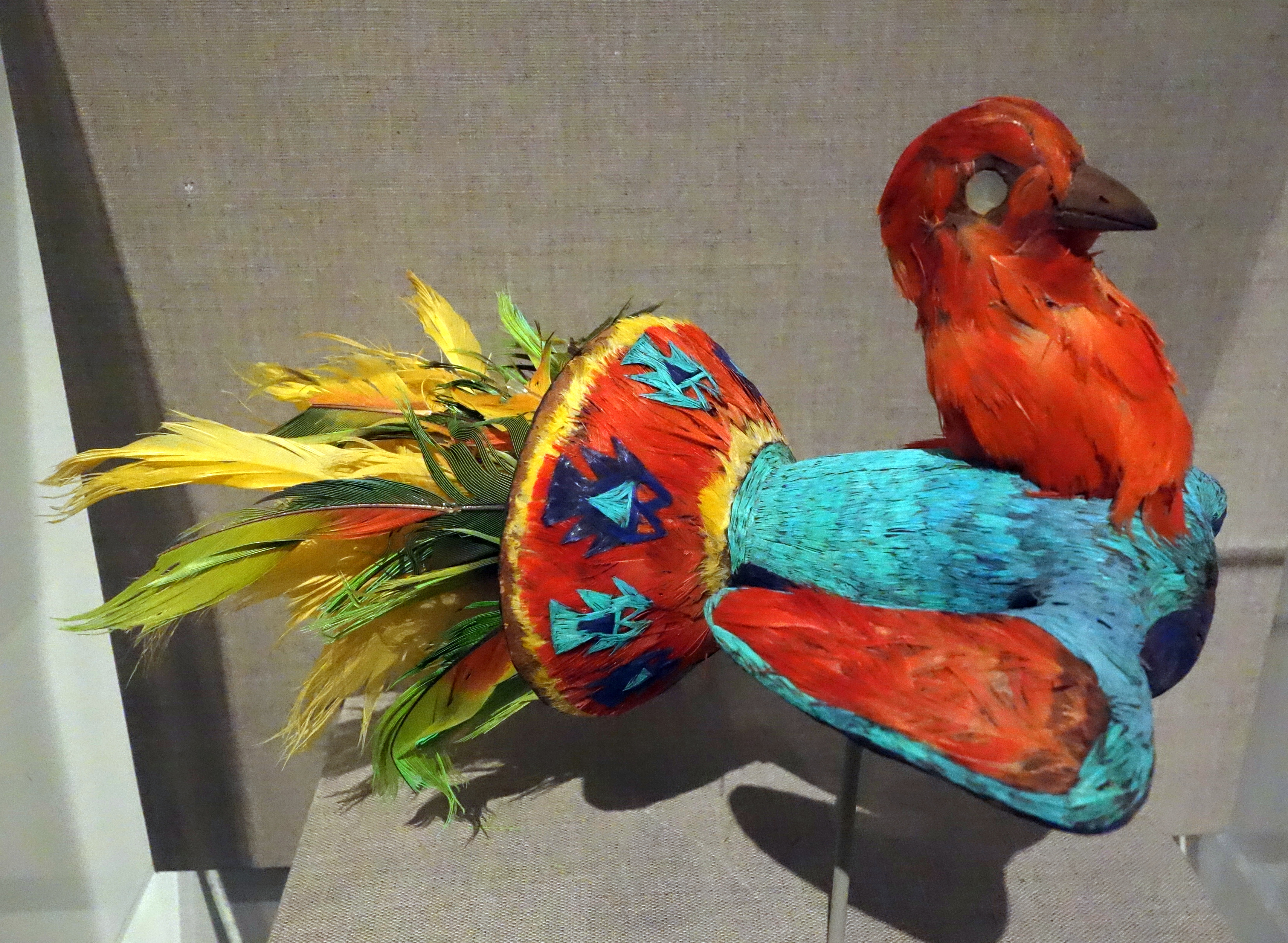 Exhibit in the De Young Museum, San Francisco, California, USA. This artwork is in the public domain because the artist died more than 70 years ago.